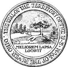 Seal of the Northwest Territory of the United States, bearing the inscription, "The Seal of the Territory of the U.S. N.W. of the River Ohio." Hon. William Hayden English describes the seal and its symbolism: The coiled snake in the foreground and the boats in the middle distance; the rising sun, the forest tree felled by the ax and cut into logs, succeeded, apparently, by an apple tree laden with fruit; the Latin inscription, "Meliorem lapsa locavit," "he has planted a better than the fallen," all combine forcibly to express the idea that a wild and savage condition is to be superseded by a higher and better civilization. [1] This image is a sketch by English based on the seal on documents furnished by President Benjamin Harrison and other authorities in Washington, D.C. Variations of this seal can be seen in File:OhioCompanyOfAssociates.jpg and File:MELIOREM LAPSA LOCAVIT.JPG.